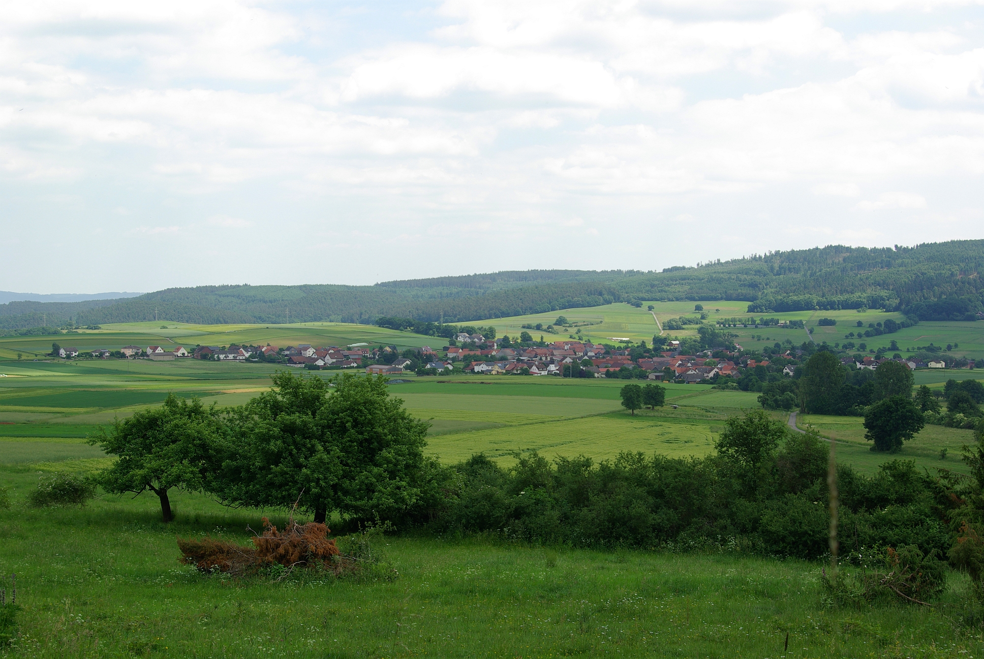 View over Warzenbach